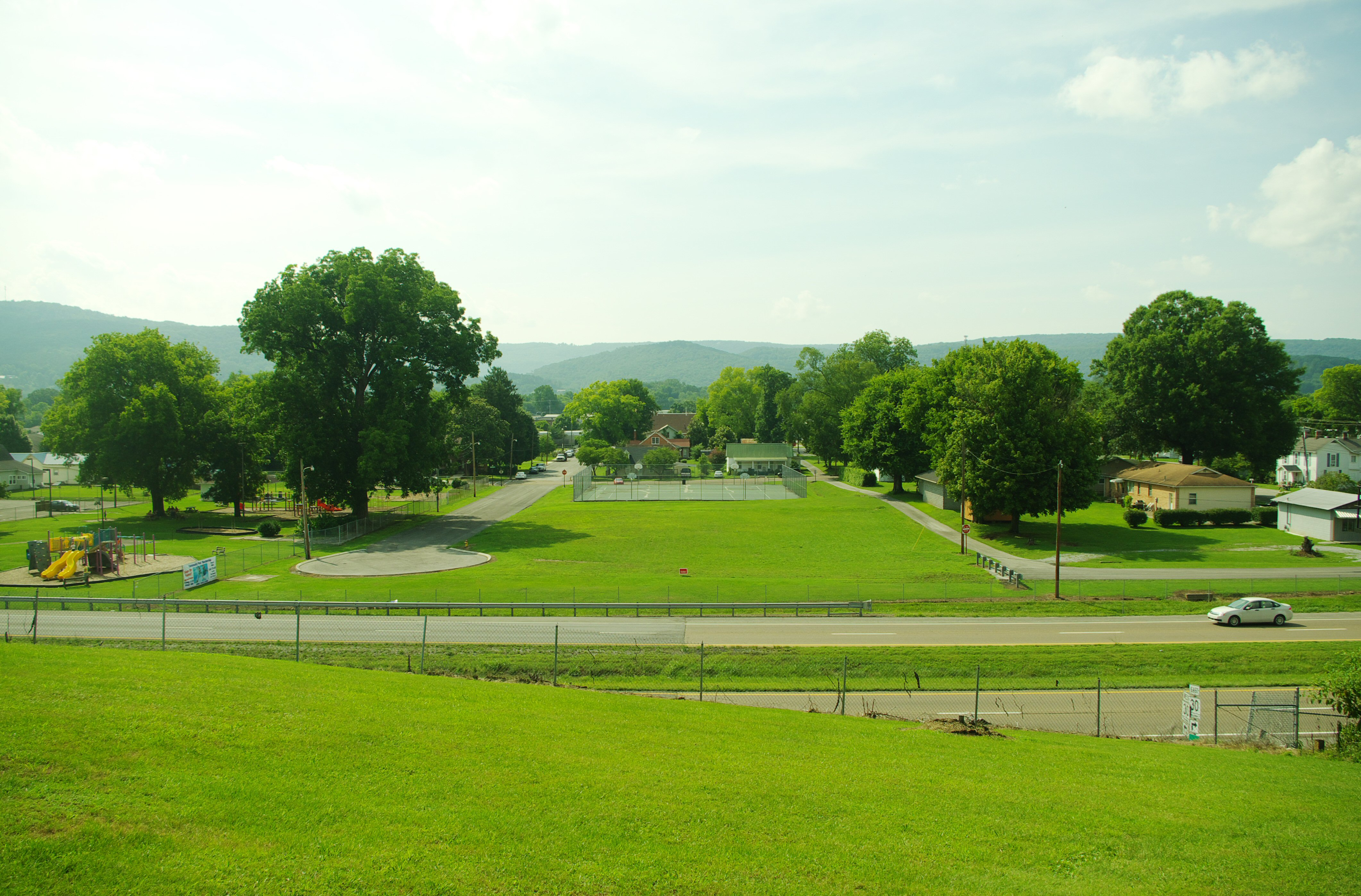 Dayton, Tennessee, Tennessee, viewed from the lawn of the old Cedar Hill Hotel building. US Route 27 is below; the street on the left ending in a cul-de-sac is 1st Avenue. The Cumberland Plateau spans the horizon.